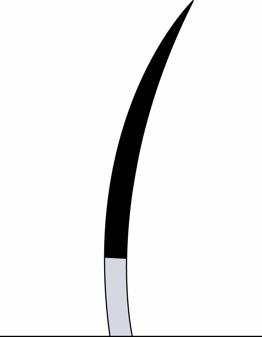 Cat hair smoke